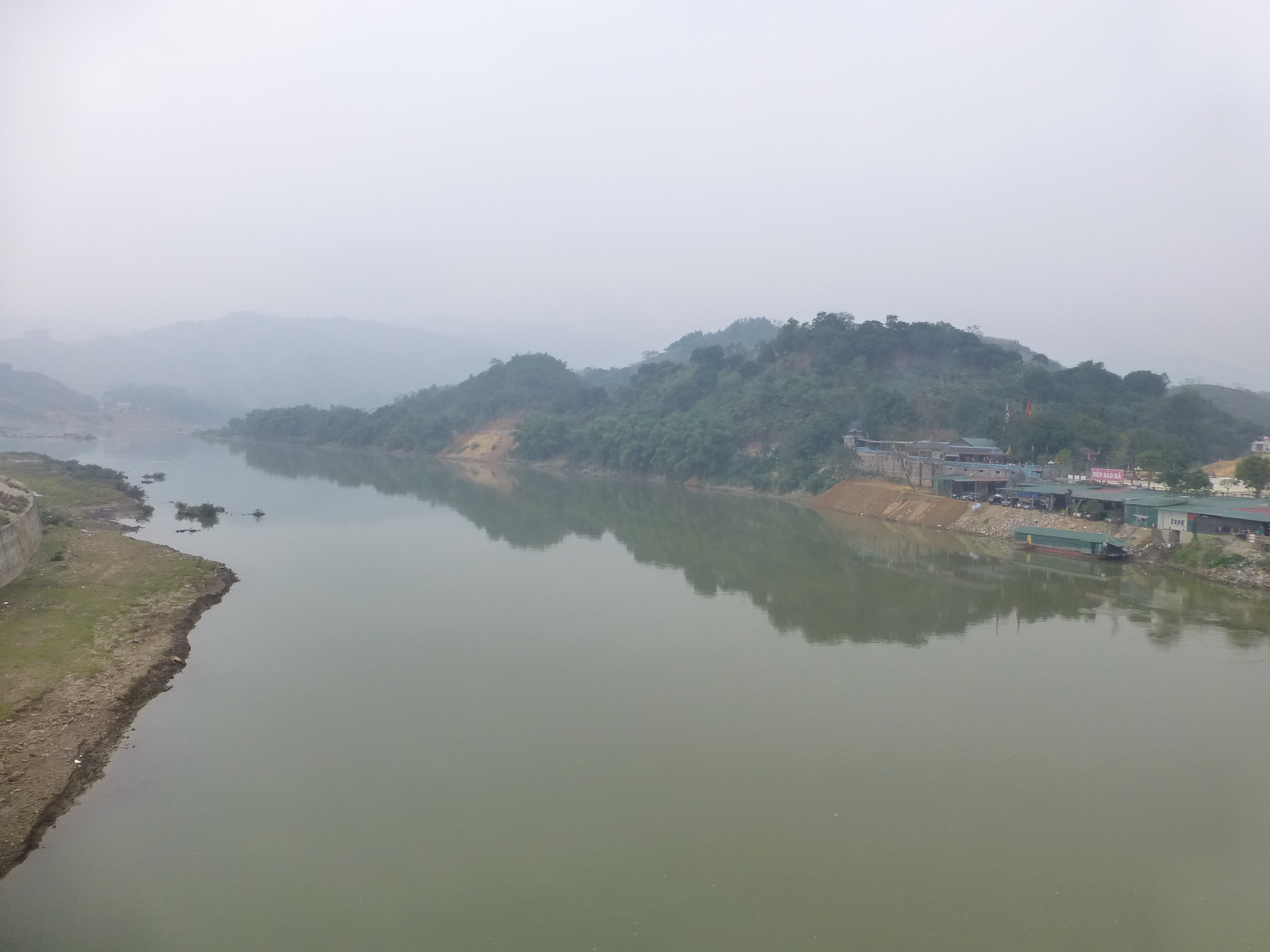 A view from the bridge over the Red River in Bảo Hà. The left bank of the river is in Bảo Hà Rural Commune (Bảo Yên District), the right bank is in Tân An Rural Commune (Văn Bàn District). The bridge carries QL279